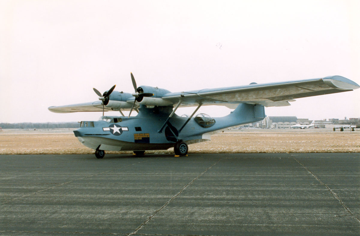 A U.S. Air Force Consolidated OA-10A Catalina at the National Museum of the United States Air Force.